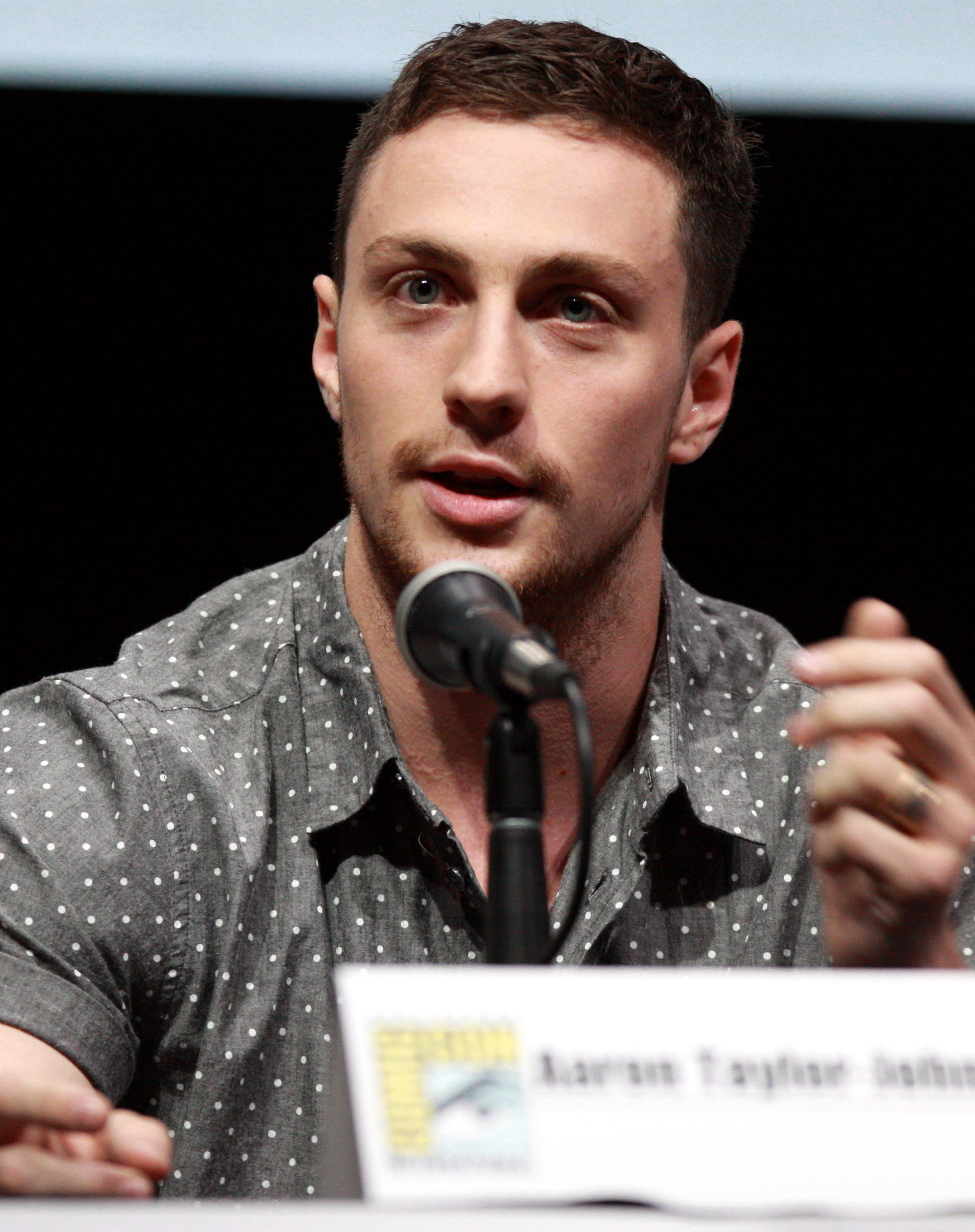 Aaron Taylor-Johnson at the 2013 San Diego Comic Con International